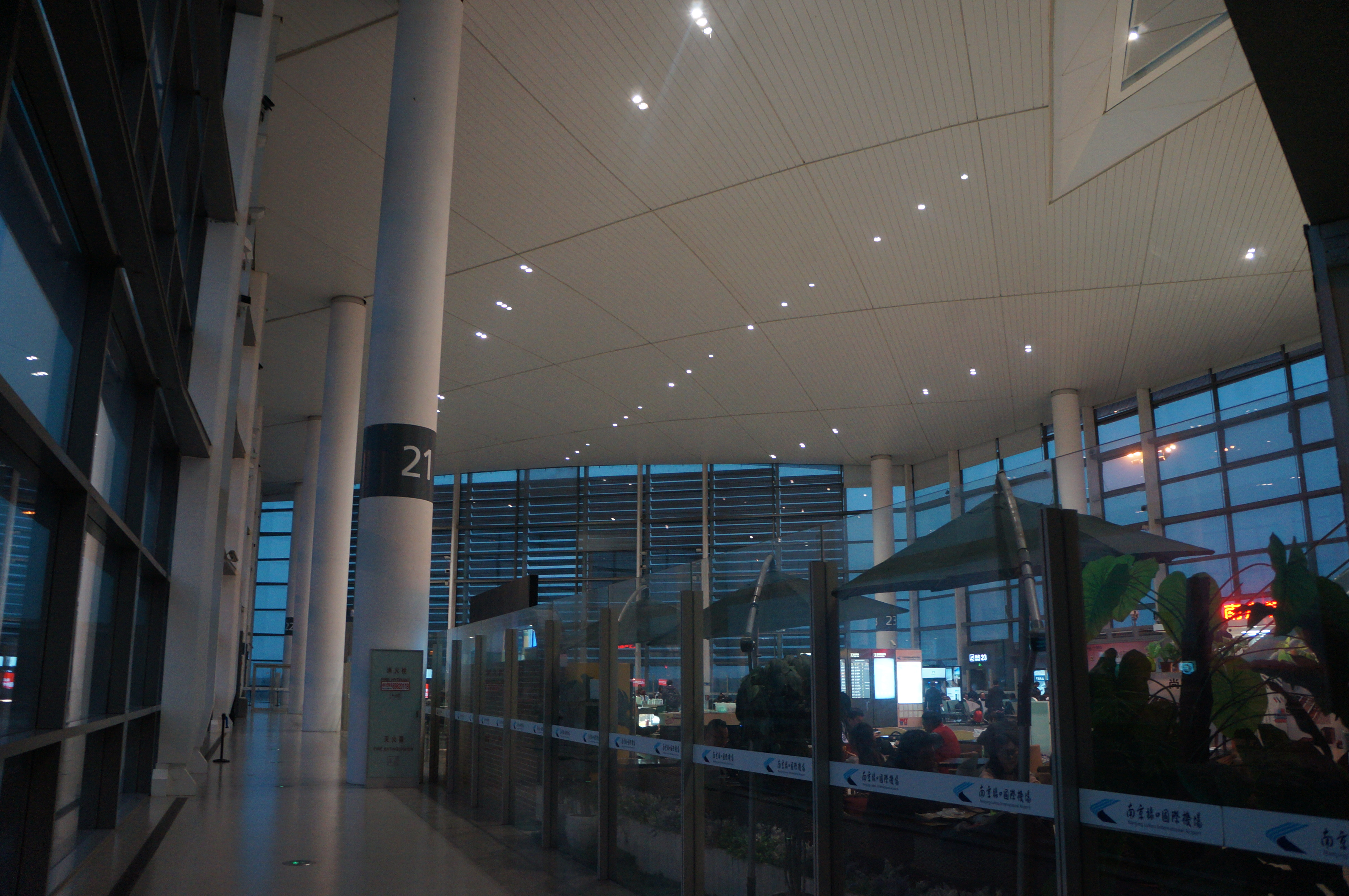 201712 End of a Concourse of NKG T2 which the flow of departure and arrival is merged.